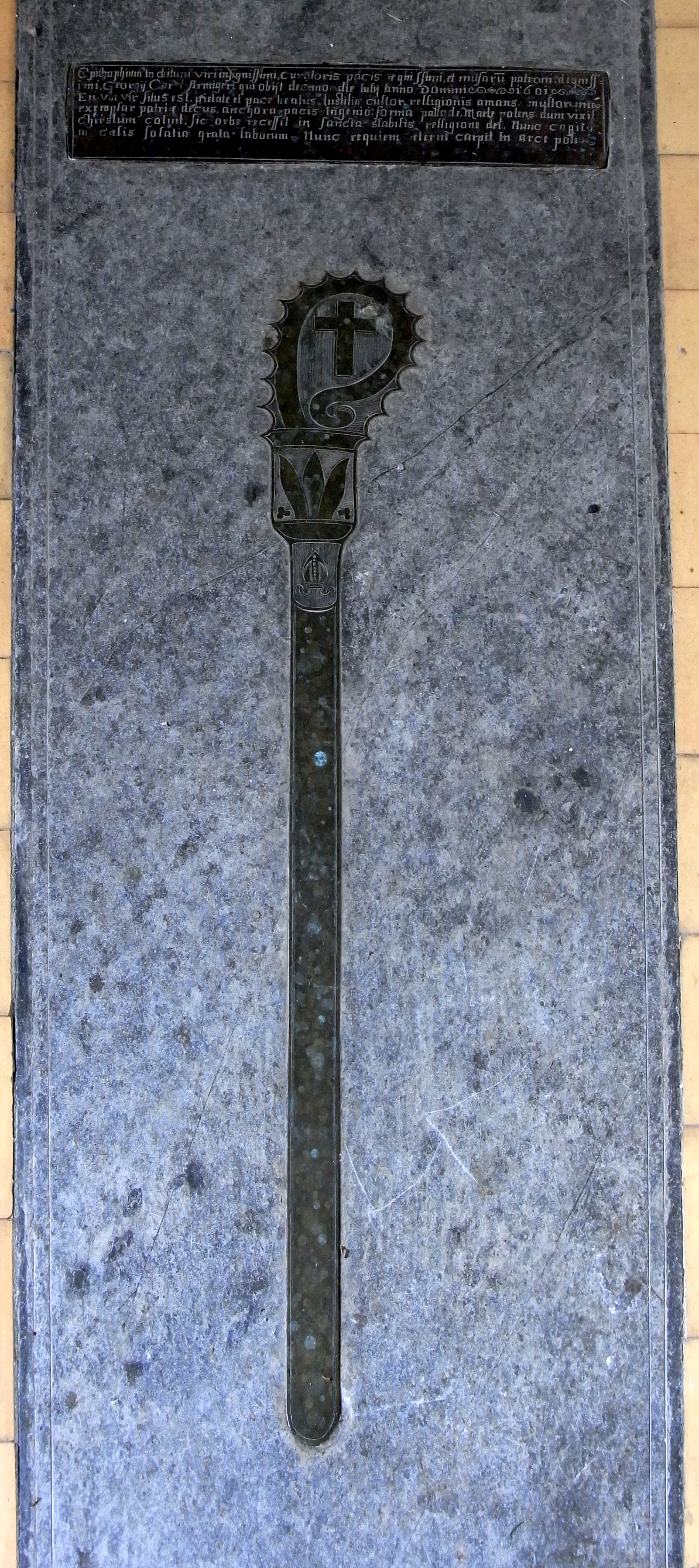 Monument to George Cary (1543-1601), lord of the manor of Clovelly, Devon, Sheriff of Devon in 1587. Floor of chancel, All Saints Church, Clovelly. The bishop's crozier was inserted in the 1860's into an empty matrix. (Griggs, William, A Guide to All Saints Church, Clovelly, first published 1980, Revised Version 2010, p.5) Inscription: Epithaphium inditum viri insignissimi curatoris pacis & qui(eti)ssimi et Musar(um) patroni dignissimi Georgii Caret (sic) Arrmigeri qui obiit decimo die Julii anno Domini 1601. En ubi vir situs est pietate et pace beatus justitiae cultor relligionis amans multorum exemplar, patriae decus, anchora pacis ingenio, forma Pallade, Marte potens. Dum vixit Christum coluit, sic orbe recessit in sancta stabilis relligione Dei. Nunc capit in caelis solatia grata laborum; nunc requiem aeterni carpit in arce poli. ("A funeral oration set in place of a most distinguished man, a most neutral guardian of the peace and a most worthy patron of the Muses, of George Cary, Esquire, who died on the tenth day of July in the year of Our Lord 1601. Behold where is placed a man, blessed with piety and peace, a cultivator of justice, a lover of religion, an example of (for) many, an ornament to his country, in his character an anchor of peace, in his (physical) form like (the Titan) Pallas, powerful in Martial feats. While he lived he worshipped Christ, thus he withdrew from the world firm in the holy religion of God. Now at one time he takes in the Heavens deserved consolation of his labours, at another time he siezes the rest of eternity in the vault of the sky"). Translation based on Griggs, p.5, corrected and expanded.